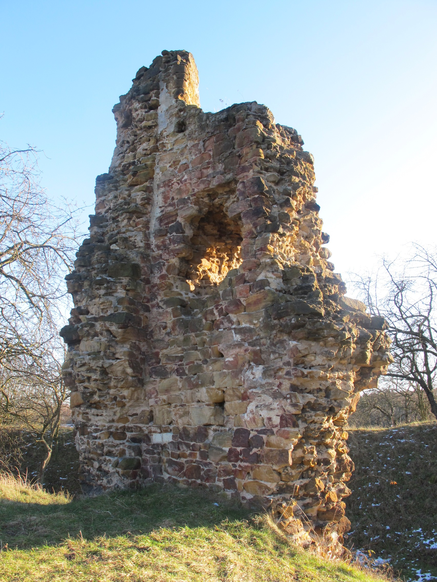 Žerotín Castle, Czech Republic, Rest of the Palace